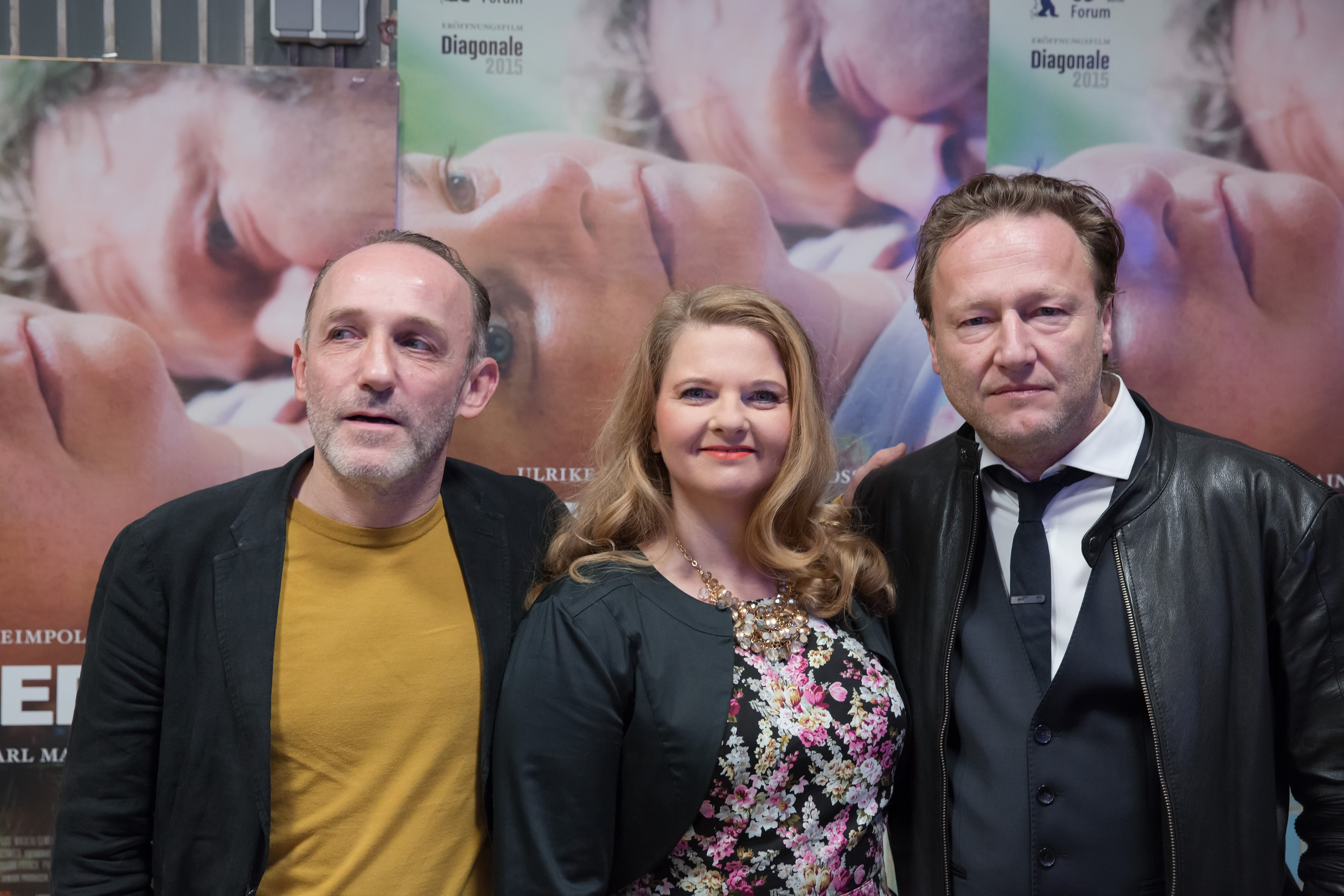 l.t.r.: Karl Markovics, Ulrike Beimpold and Rainer Wöss at the Viennese premiere of Superwelt at Gartenbaukino in Vienna, Austria.